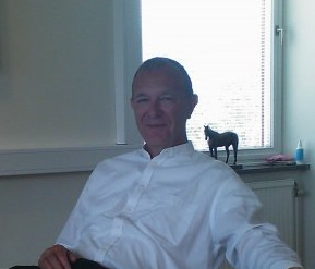 Own picture